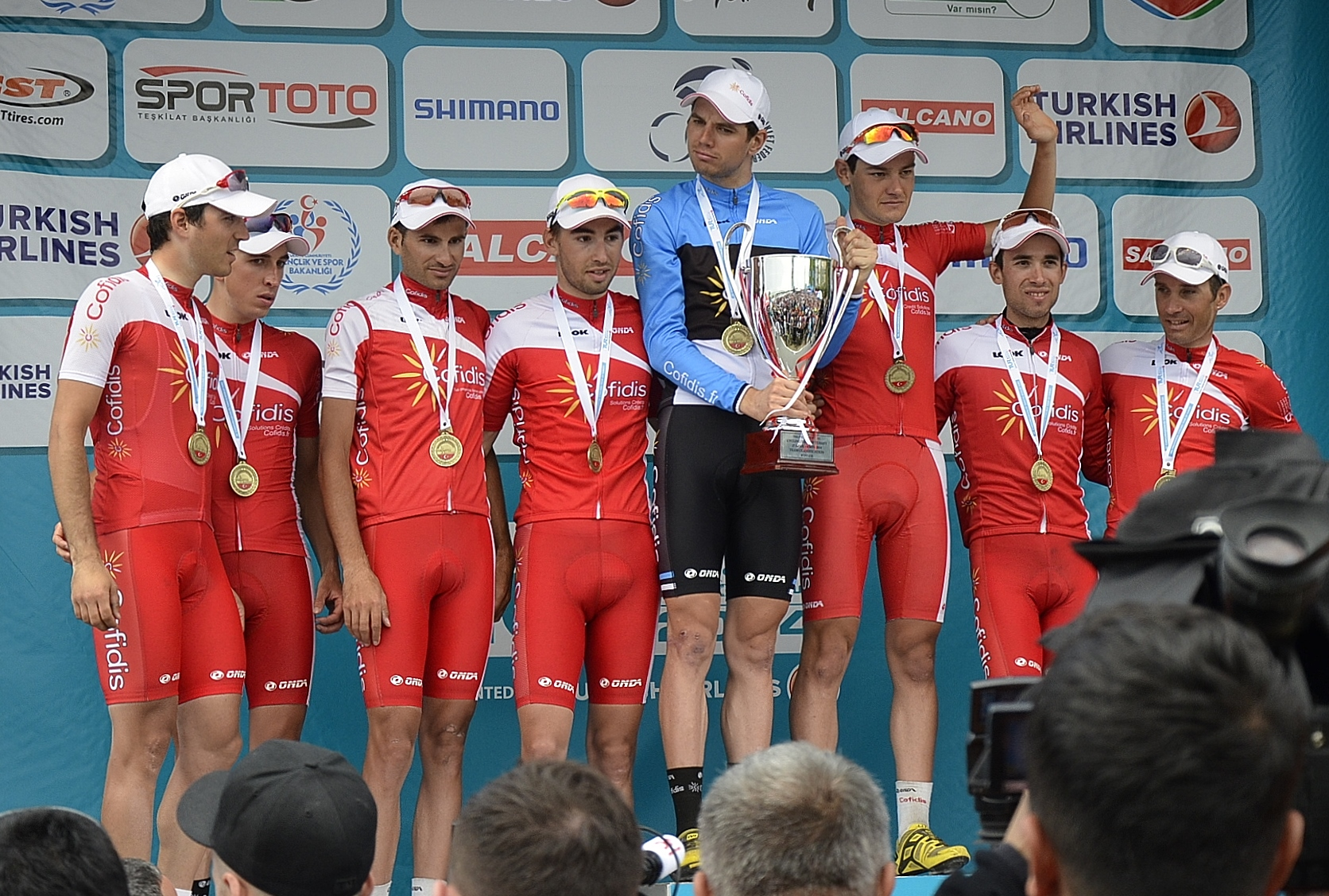 Cofidis at Tour of Turkey 2014